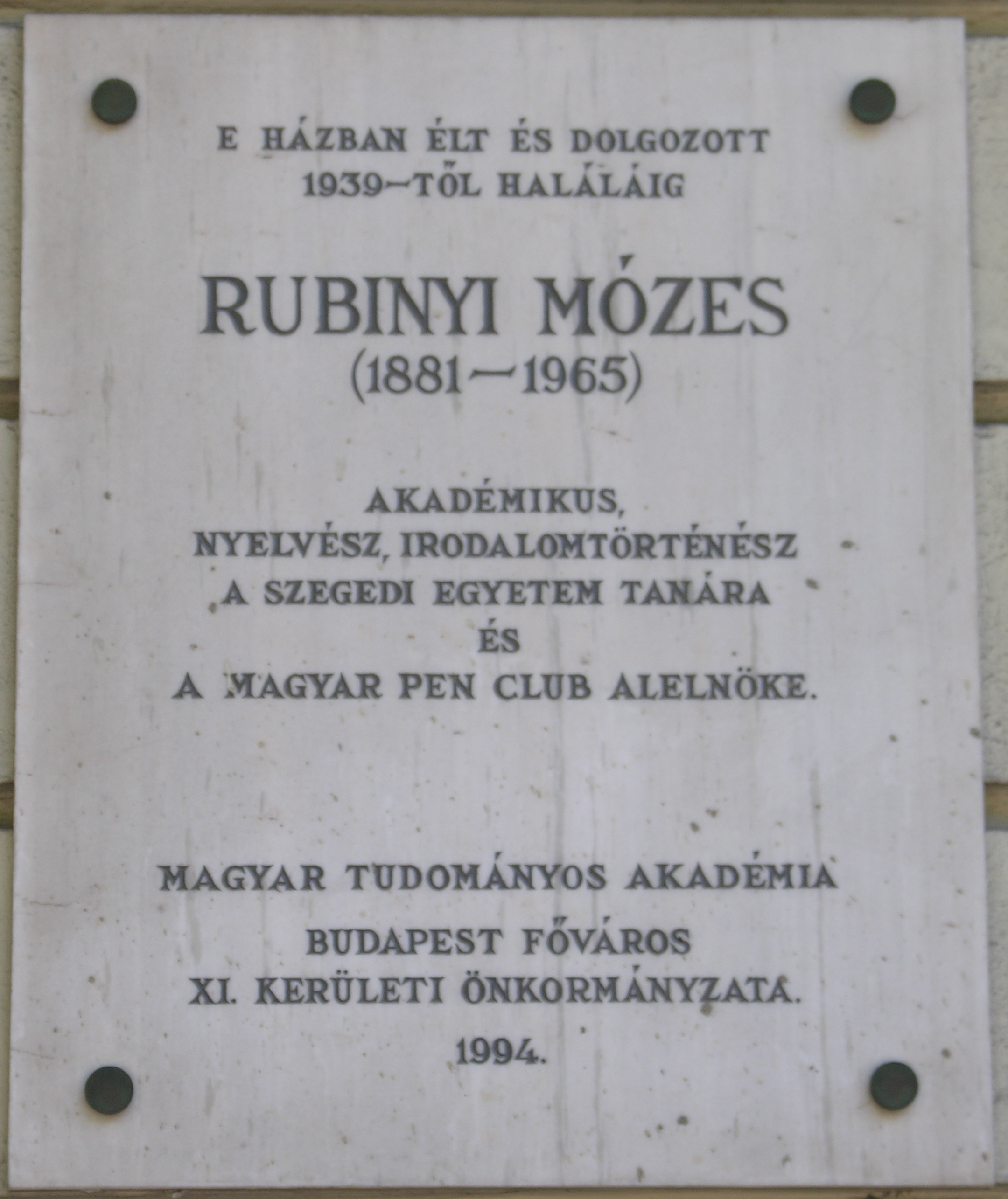 Commemorative plaque of Mózes Rubinyi in Budapest District XI, Bartók Béla Street No 10-12